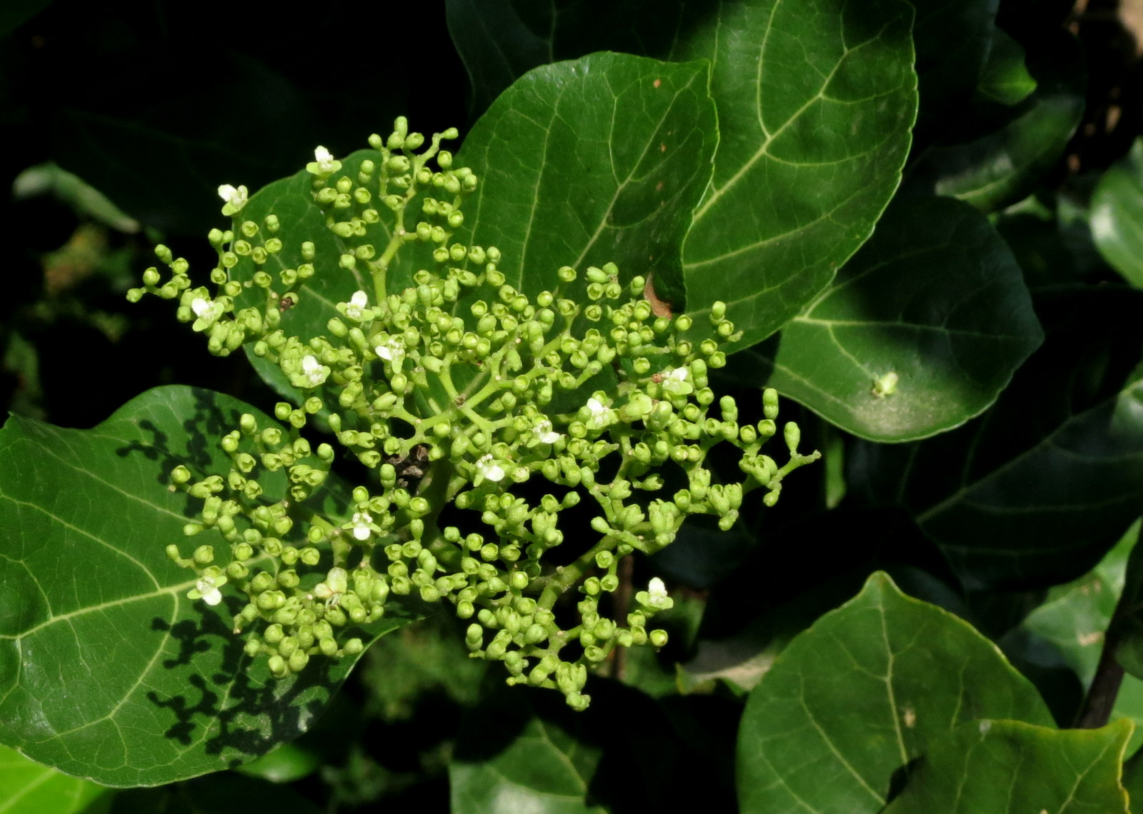 Seen in Ecumenical Christian Centre, Nallurhalli, Whitefield, Bangalore, Karnataka 560066, India. Remarkable shrub from western ghats...The flower has no smell and the branches have a strong This single speciman was having around 50 to 100 butterflies around it. It had the following butterflies getting attracted to it. The butterflies looked as if they were intoxicated with the nectar. They allowed us to come very near. 1) Dark blue tiger 2) Blue Tiger 3) Stripped Tiger 4) Common Crow 5) Double branded crow 6) Pioneer 7) Common albatross 8) Common wanderer 9) Banded Awl 10) Tailed Jay 11) Common Jay 12) Common leopard 13) Common Emmigrant It was attracting a lot of bees also. 1) A bee from Syrphidae family 2) A bee from Sphecidae family 3) Thyreus sp, Apidae family 4) A lynx spider Amazing shrub and its seen so less in Bangalore. This is the first time i am sighting this plant and what an impression it has left on me!